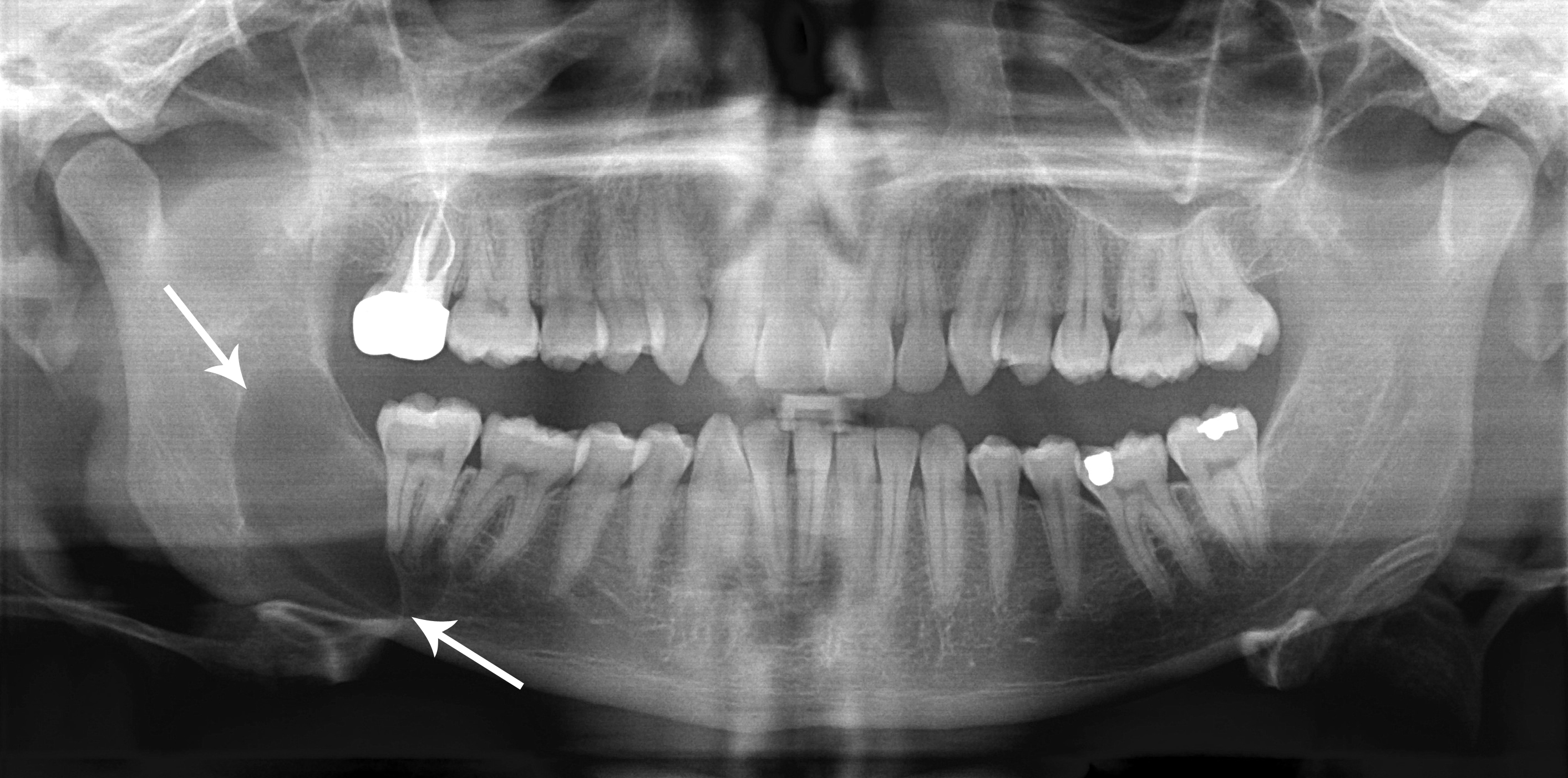 Classic look to a keratocyctic odontogenic tumor in the right mandible in the place of a former wisdom tooth. Unicystic lesion growing along the bone. Lesion was seen by oral surgeon on routine panoramic radiography without any symptoms.